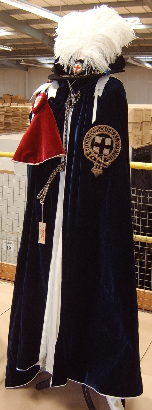 Mantle and hat of the Most Noble Order of the Garter.